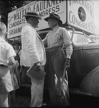 Walter Faulkner, candidate for U.S. Congress, campaigning with a Tennessee farmer. Crossville, Tennessee.